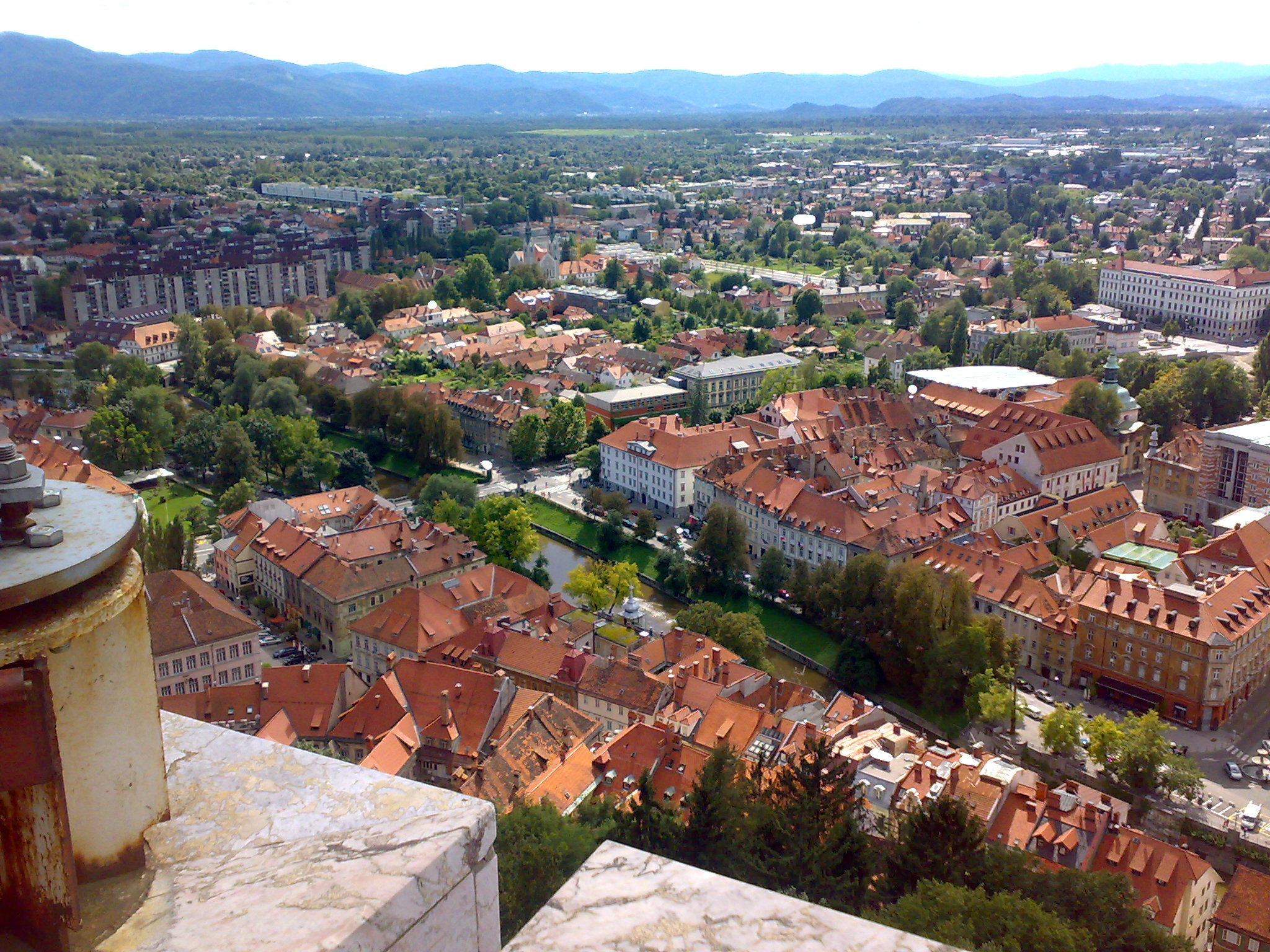 Ljubljana - landscape view from the castle tower